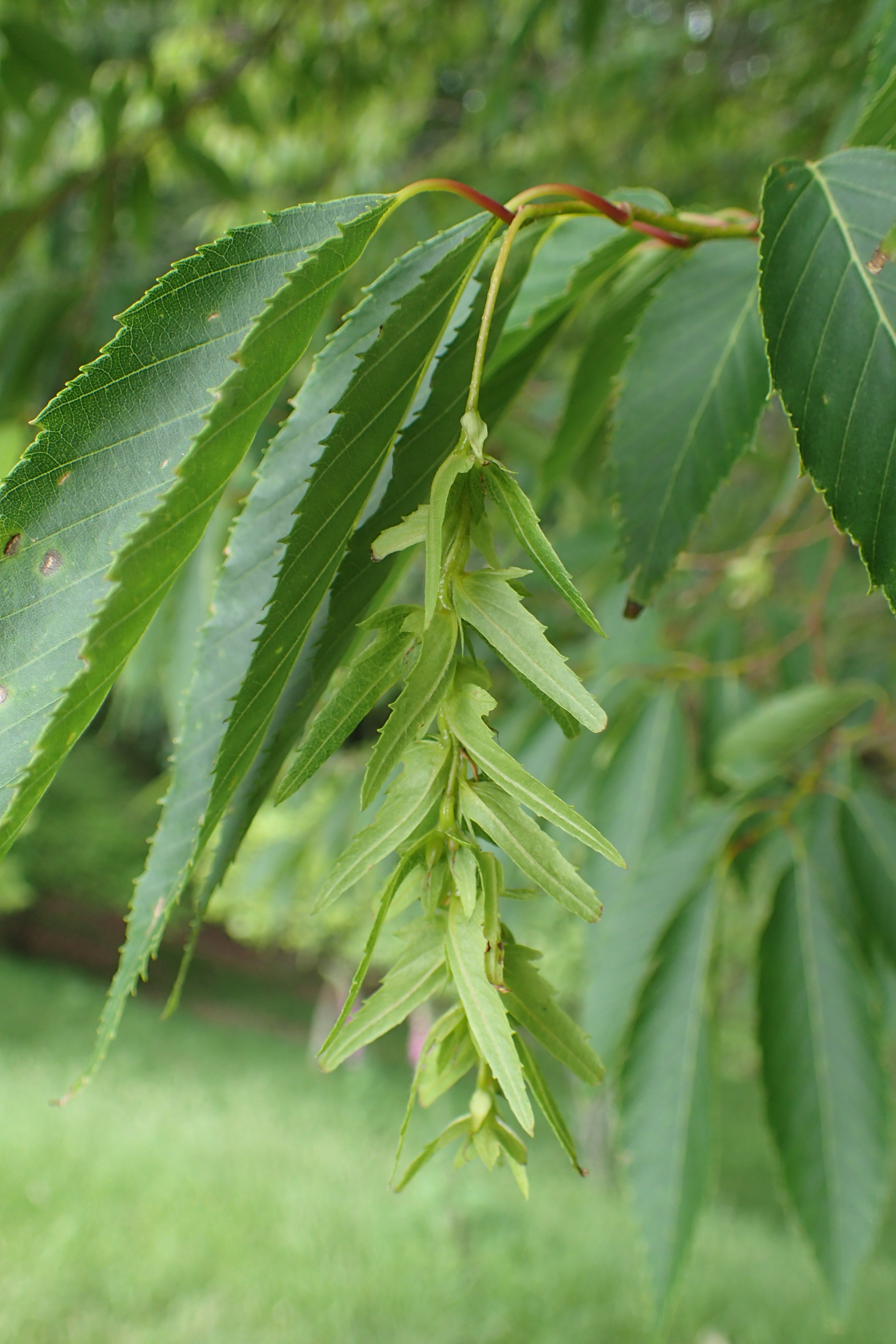 Carpinus viminea in Hackfalls Arboretum, Hawkes's Bay, NZ